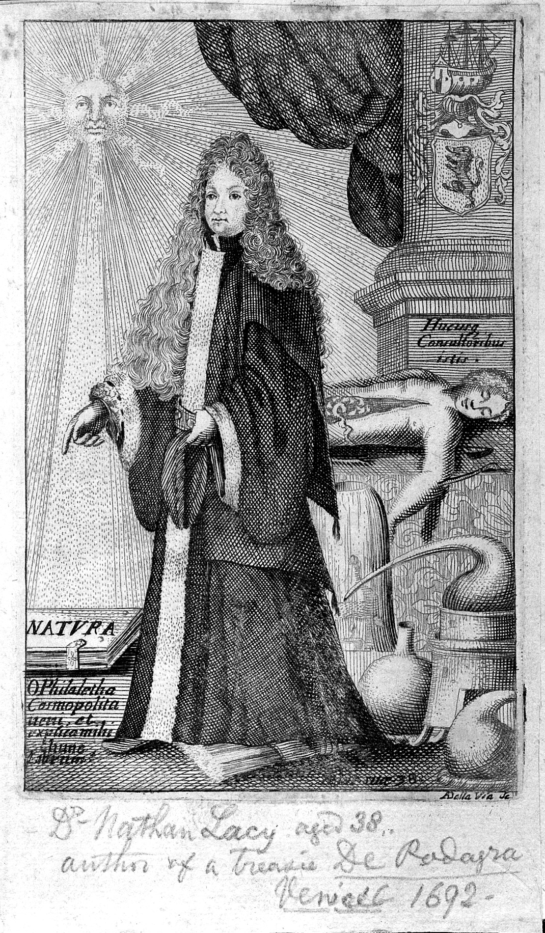 Nathan Lacy. Engraving by A. Della Via. (see "De podagra" (1692) by Nathan Lacy med. doct [1]) Iconographic Collections Keywords: brn 23319; nathan lacy; Nathan Lacy; Alessandro Della Via